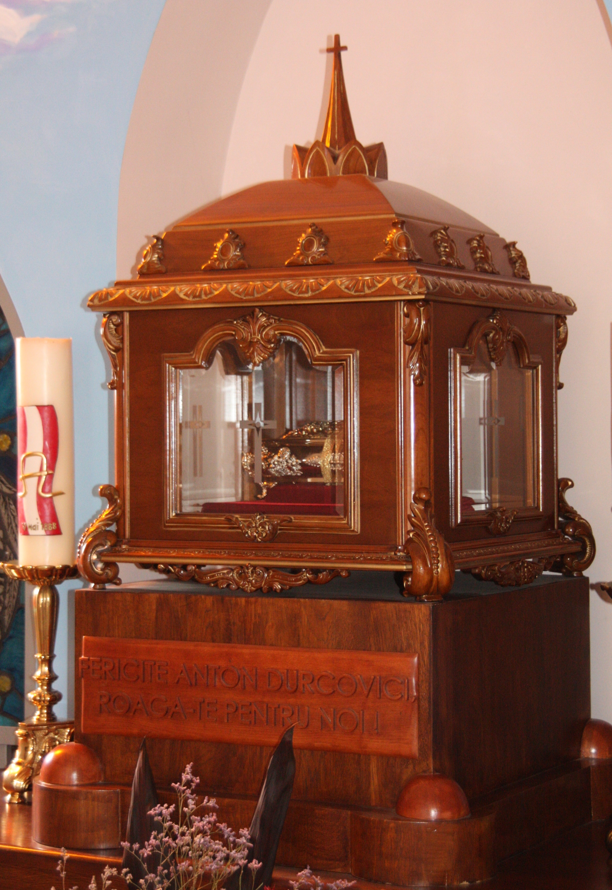 relic shrine for blessed Anton Durcovic containing soil from his place of death